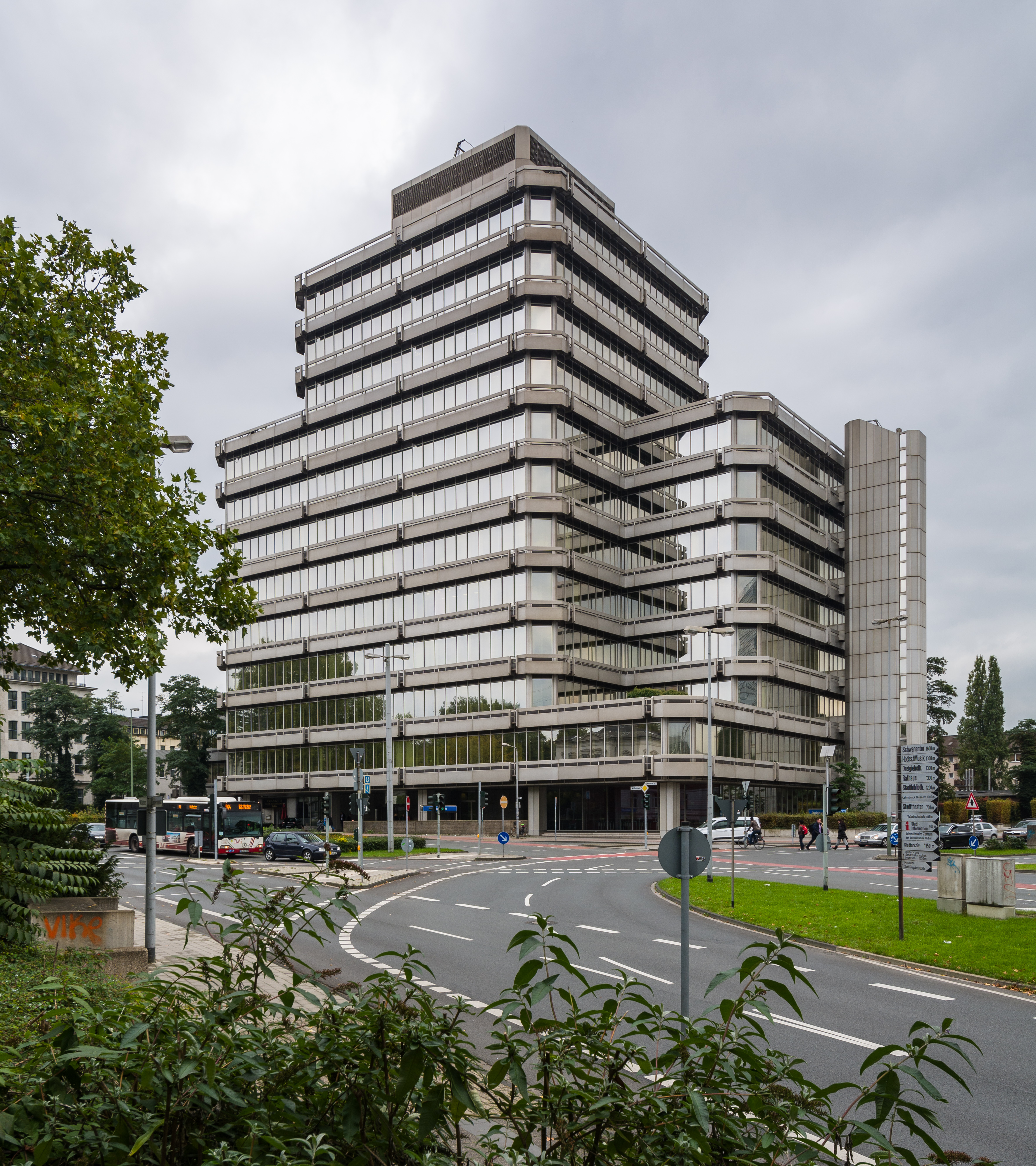 Silberpalais in Duisburg, architect: Hubert Petschnigg